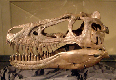 Photo shot by myself on 12/20/2005. This is a replica of the actual skull that is kept in storage.